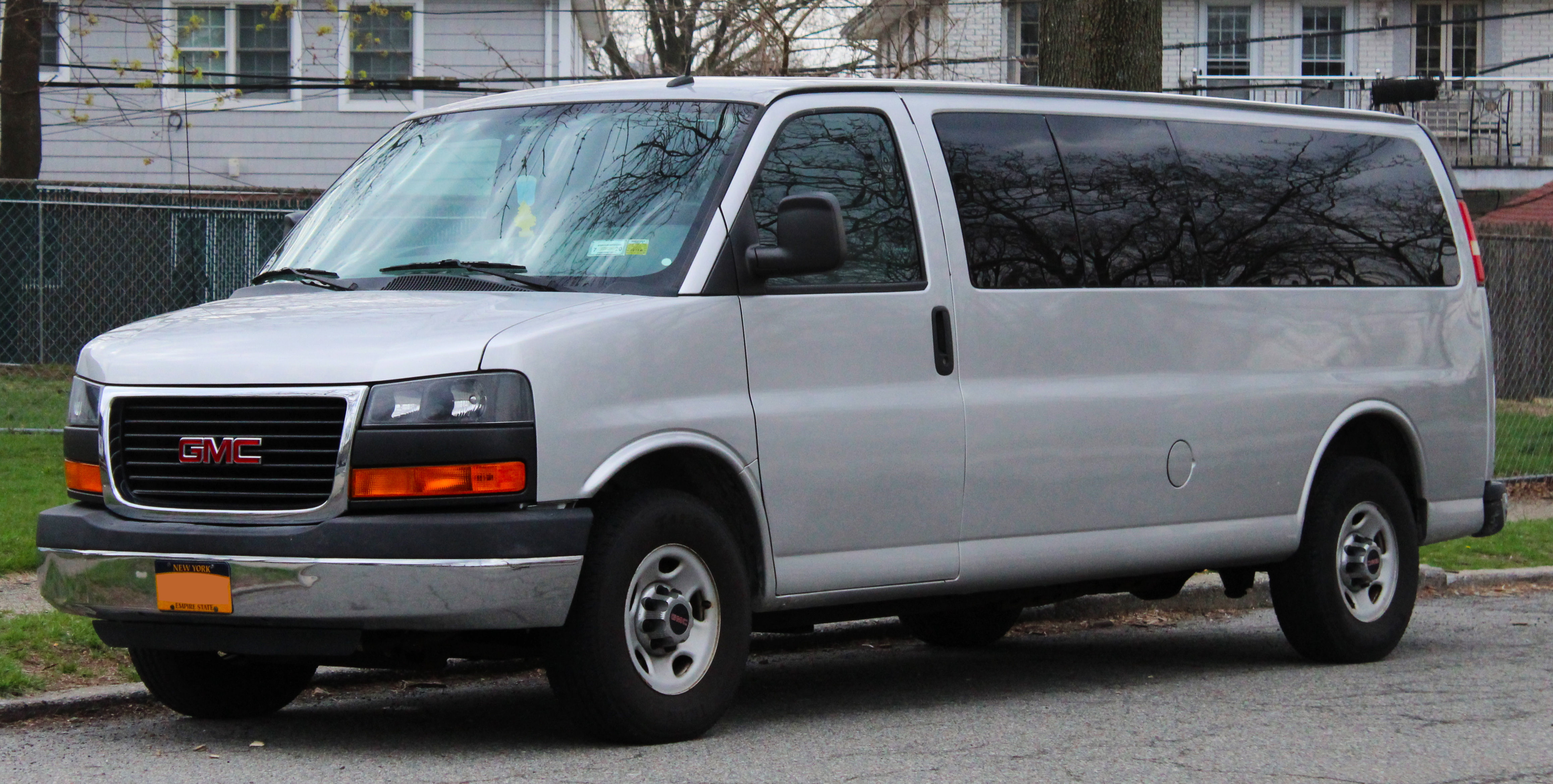 A 2012 GMC Savana 3500 Extended photographed in Queens, New York, USA